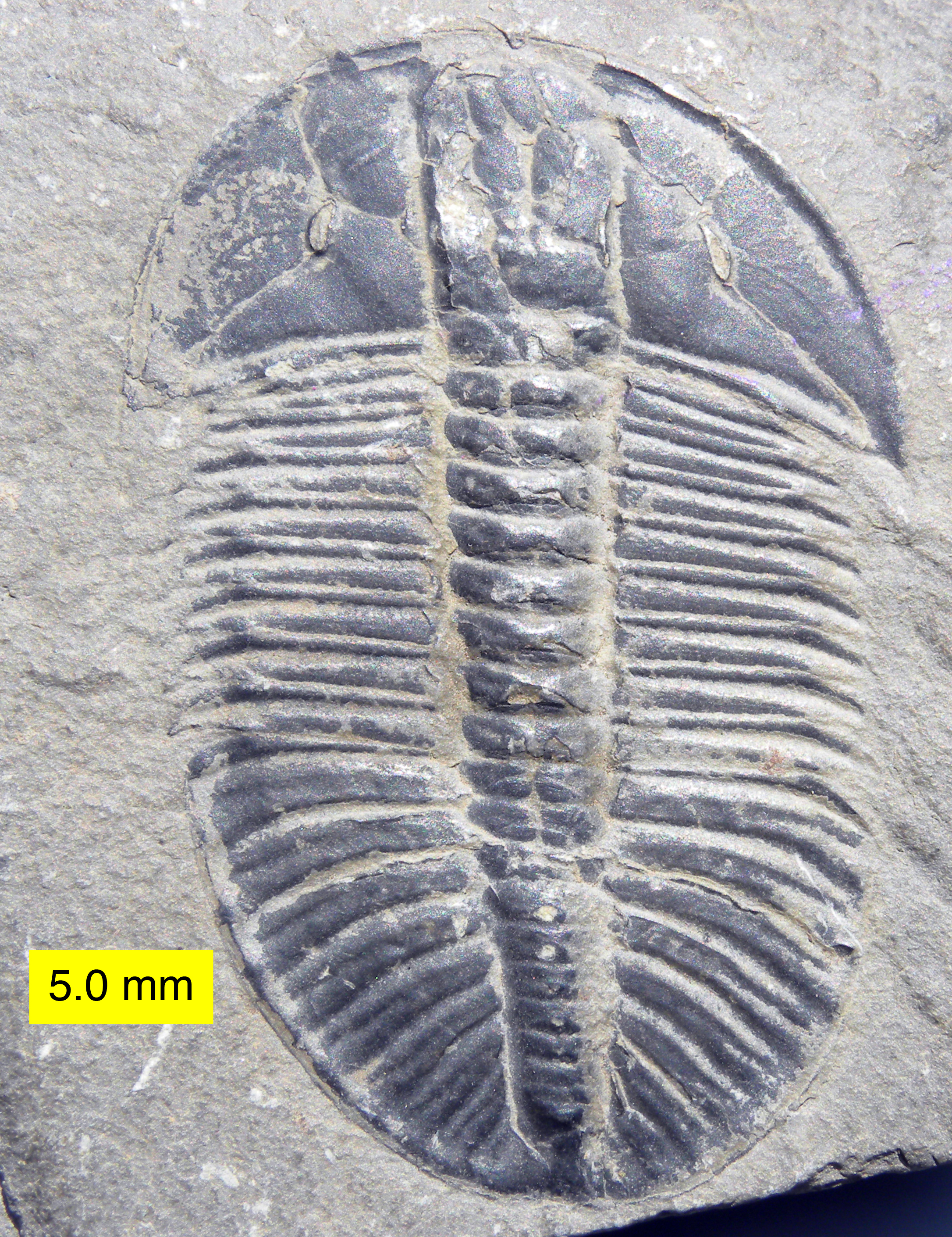 Ogyopsis klotzi from the Mt. Stephen Trilobite Beds (Middle Cambrian) near Field, British Columbia, Canada.; Photograph taken by Mark A. Wilson (Department of Geology, The College of Wooster). [1]